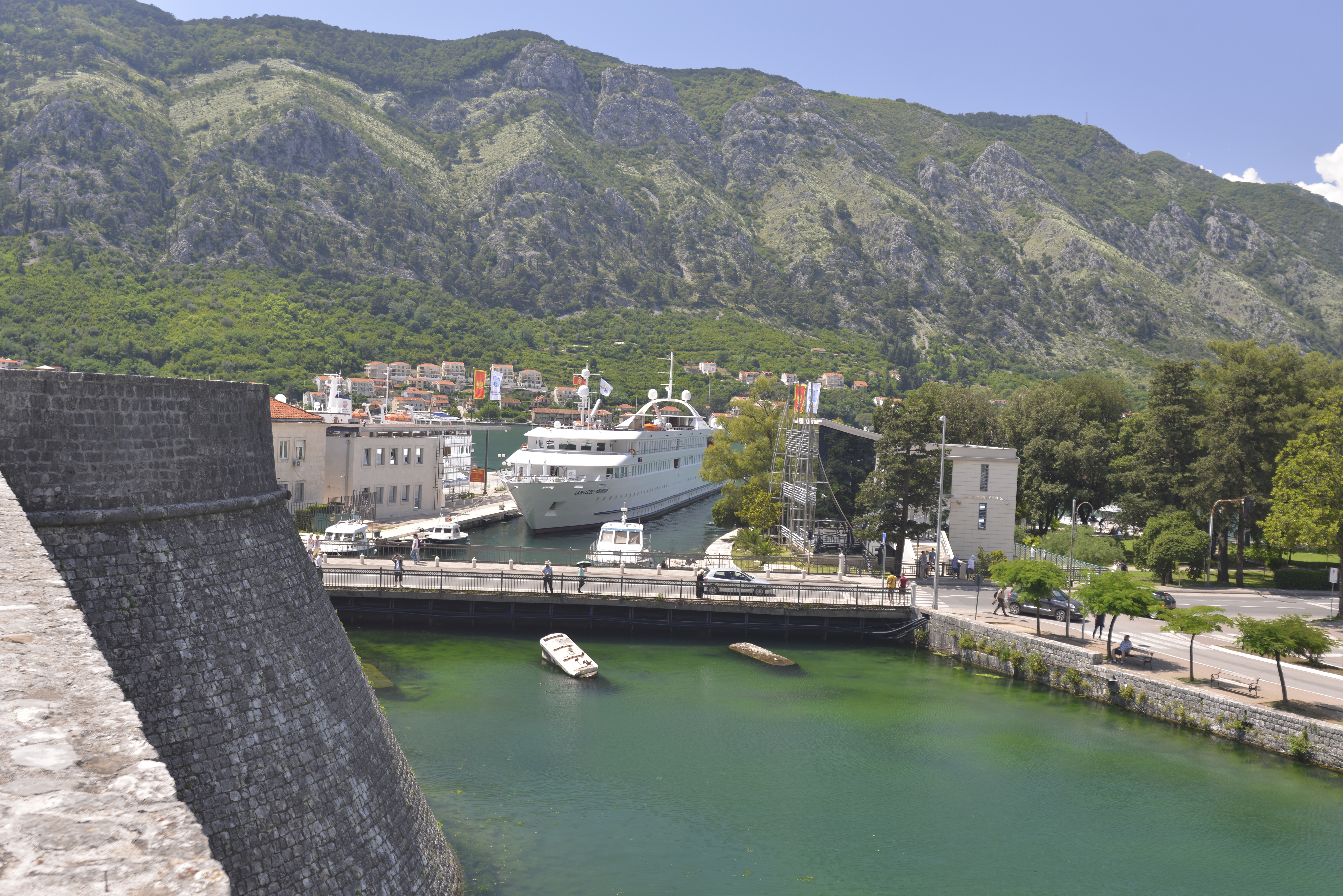 Boat in the Kotor Harbor